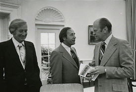 Richard DeVos and Jay VanAndel in the Oval Office meeting with Gerald R. Ford in June 1975.